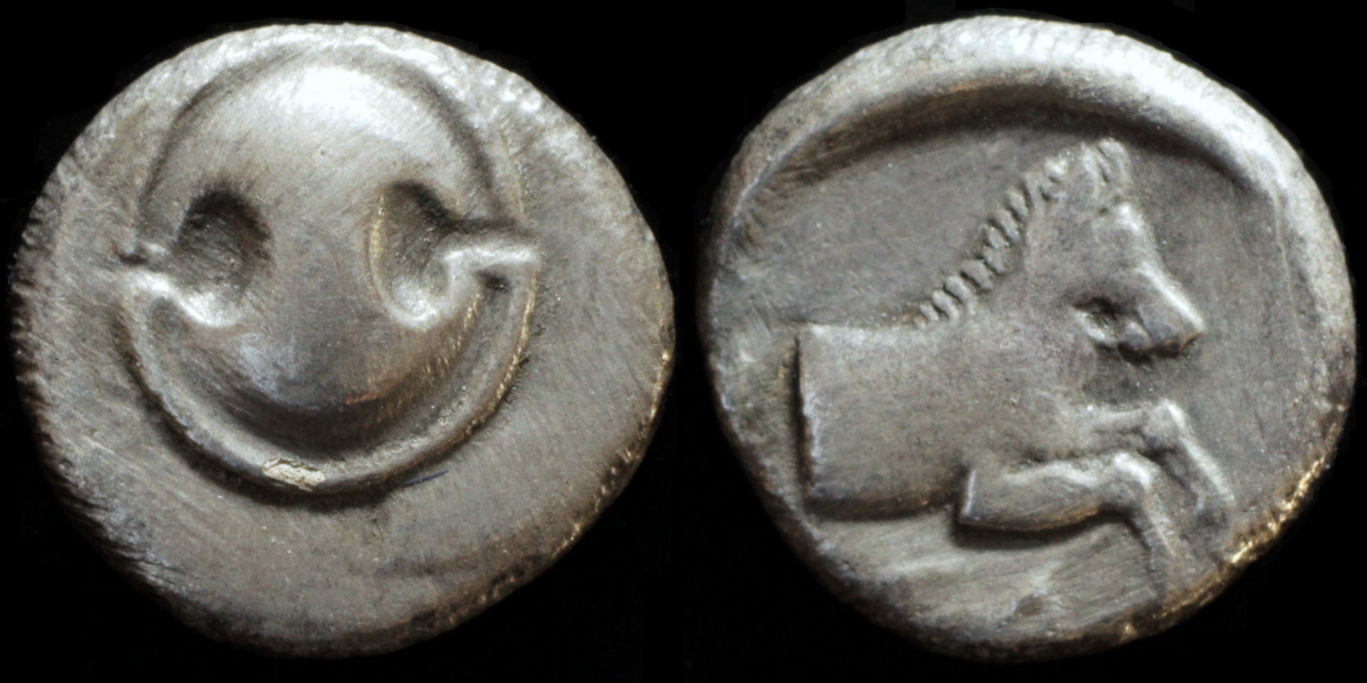 struck in 387-374 BC obverse: boeotian shield reverse: forepart of horse right TA (below) reference: BCD Boiotia 280; SNG Copenhagen 231